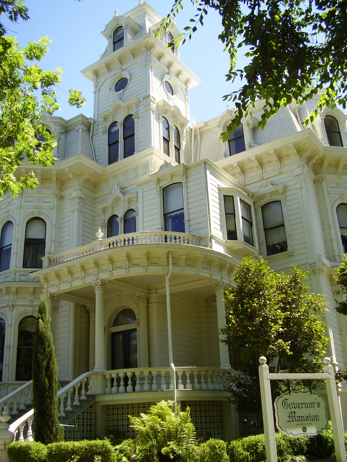 California Governor's Mansion